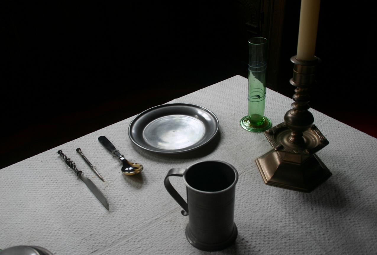 Laying the table in the 17. century. Reconstruction at the "Old Town", Aarhus.